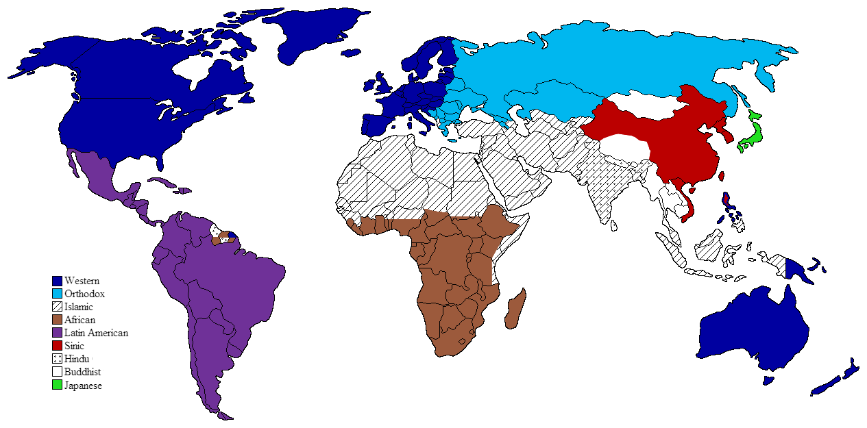 "The World of Civilizations: Post-1990", map from Huntington's Clash of Civilizations (1996) indicating the postulated world's nine major "civilizations": Western, Latin American, Orthodox, Islamic, Sinic, Buddhist, Japanese, Hindu, African. The most significant dividing line in Europe, as William Wallace has suggested, may well be the eastern boundary of Western Christianity in the year 1500. This line runs along what are now the boundaries between Finland and Russia and between the Baltic states and Russia, cuts through Belarus and Ukraine separating the more Catholic western Ukraine from Orthodox eastern Ukraine, swings westward separating Transylvania from the rest of Romania, and then goes through Yugoslavia almost exactly along the line now separating Croatia and Slovenia from the rest of Yugoslavia. In the Balkans this line, of course, coincides with the historic boundary between the Hapsburg and Ottoman empires. The peoples to the north and west of this line are Protestant or Catholic; they shared the common experiences of European history—feudalism, the Renaissance, the Reformation, the Enlightenment, the French Revolution, the Industrial Revolution; they are generally economically better off than the peoples to the east; and they may now look forward to increasing involvement in a common European economy and to the consolidation of democratic political systems. The peoples to the east and south of this line are Orthodox or Muslim; they historically belonged to the Ottoman or Tsarist empires and were only lightly touched by the shaping events in the rest of Europe; they are generally less advanced economically; they seem much less likely to develop stable democratic political systems. FOREIGN AFFAIRS Vol. 72 No. 3 (1993), p.30